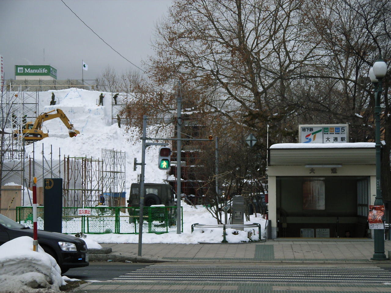 Ōdōri Station of the Sapporo Subway, Sapporo, Japan.